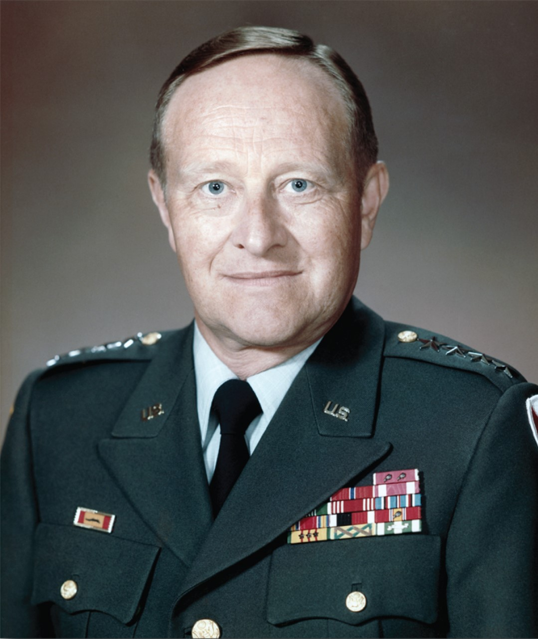 General Donald R. Keith from [1]